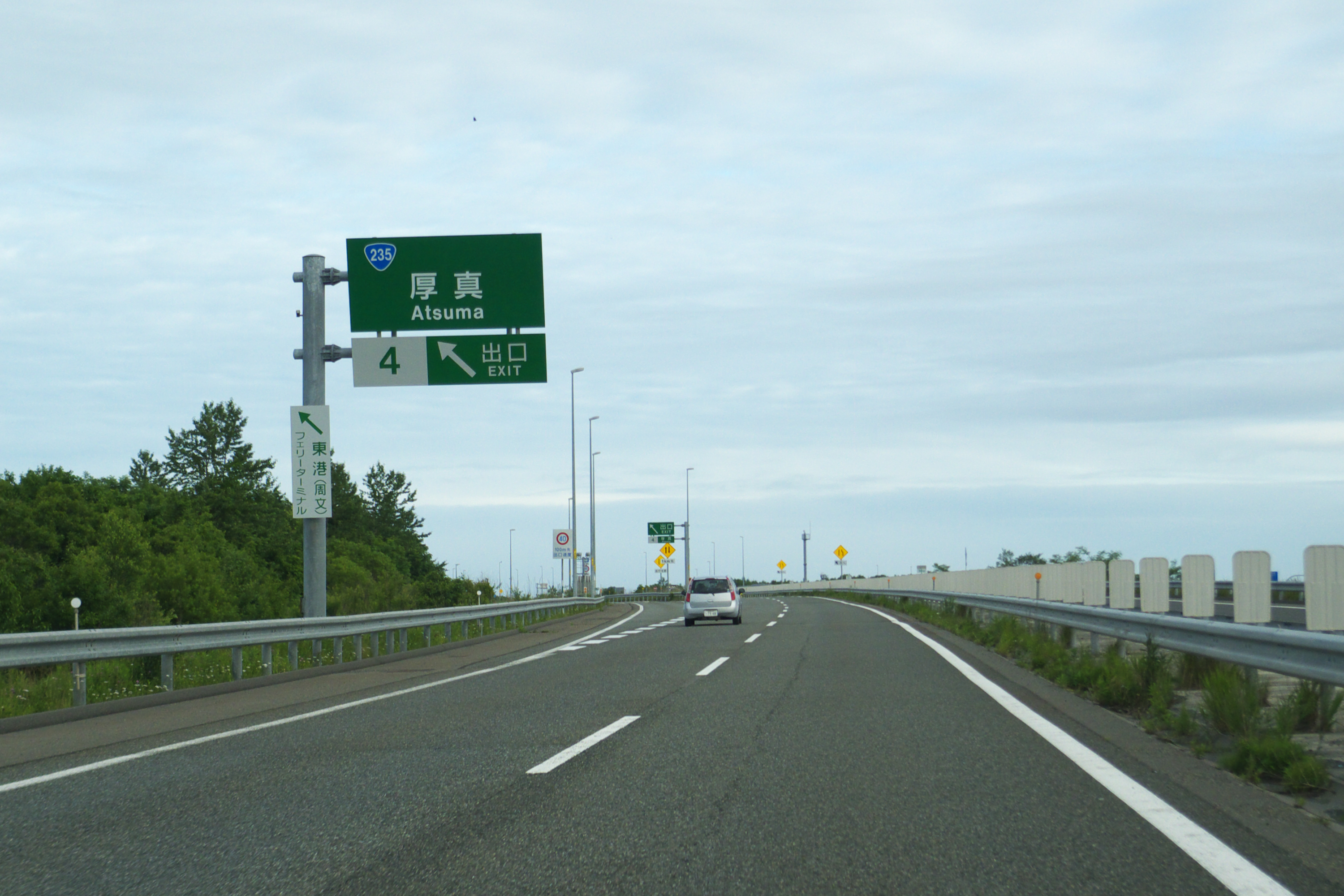 Hidaka Expressway Atsuma Interchange in Atsuma Town, Hokkaido, Japan